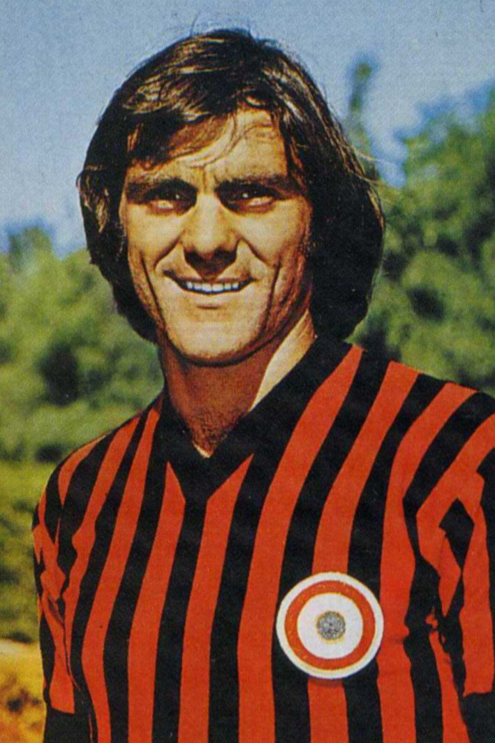 Italian fotball player Giuseppe Sabadini of AC Milan in 1972 showing on his jersey the tricolore symbol of the win of previous Coppa Italia